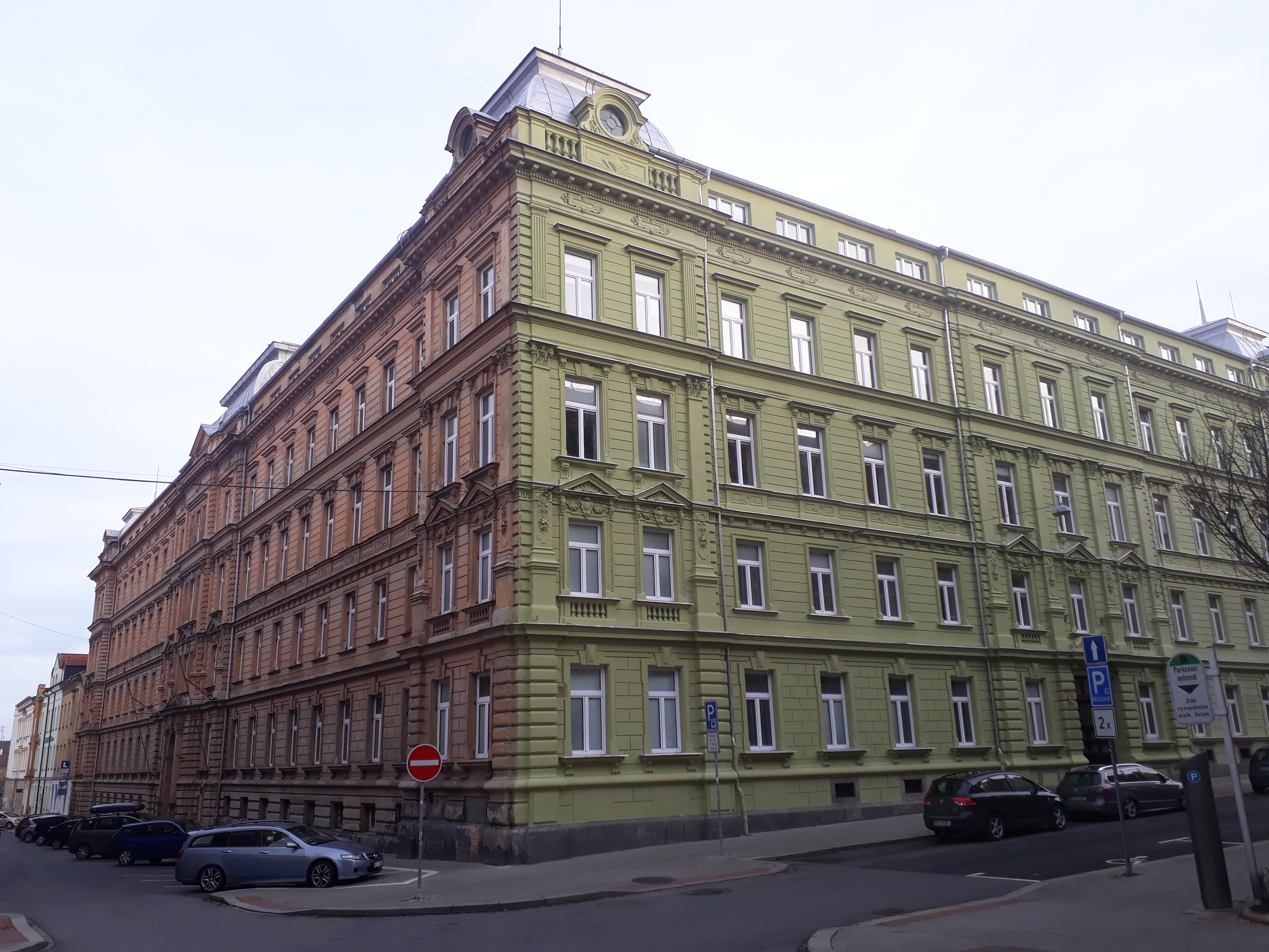 Administrative building of headquarters of Imperial Royal Austrian State Railways in Pilsen (1895-1897).